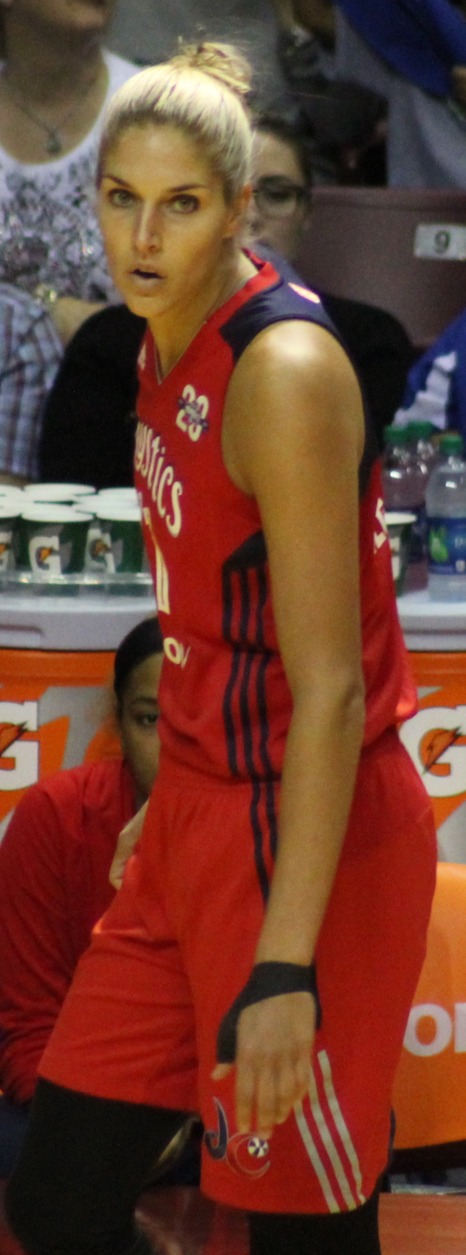 Elena Delle Donne of the Washington Mystics